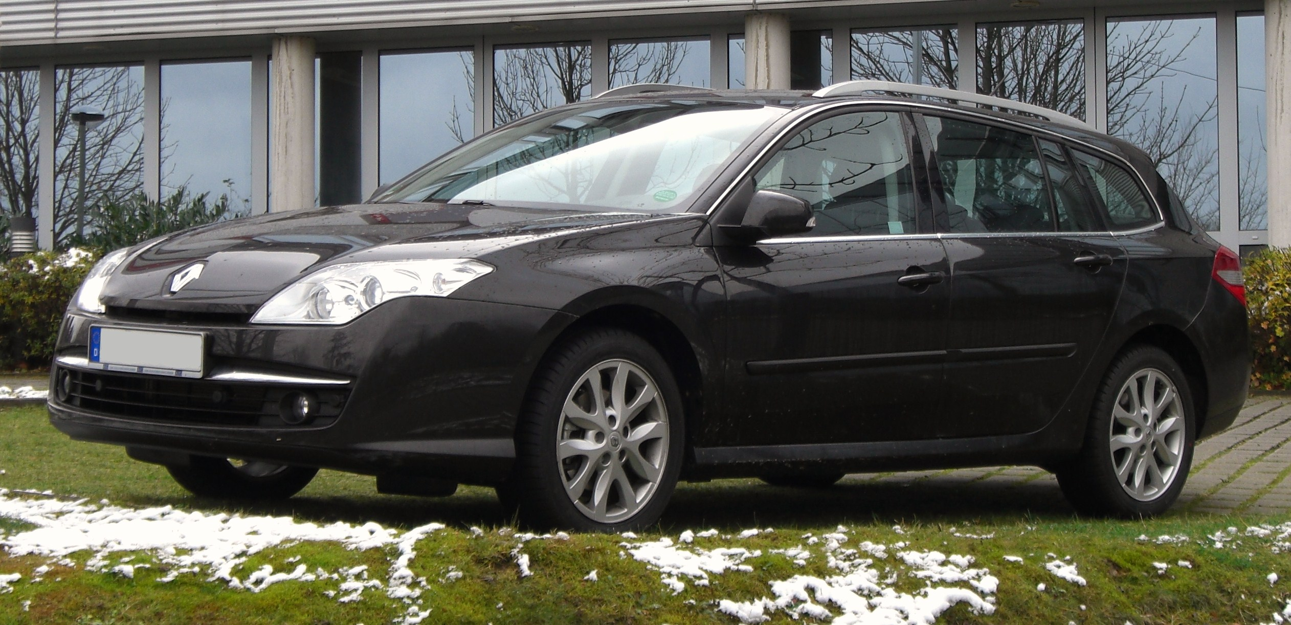 Description: Renault Laguna III Grandtour Source: Matthias Other Version(s)